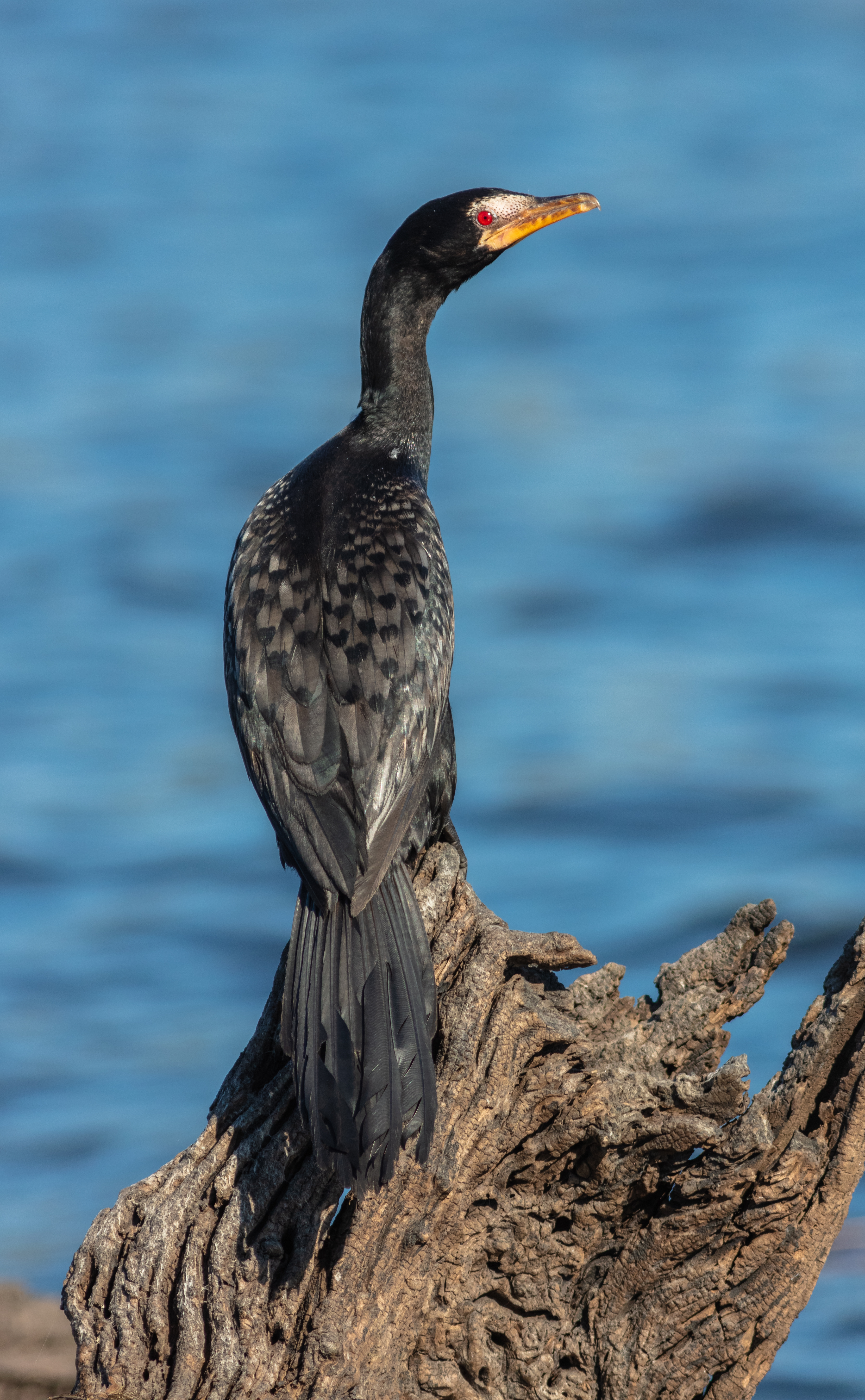 Reed cormorant (Microcarbo africanus), Chobe National Park, Botswana